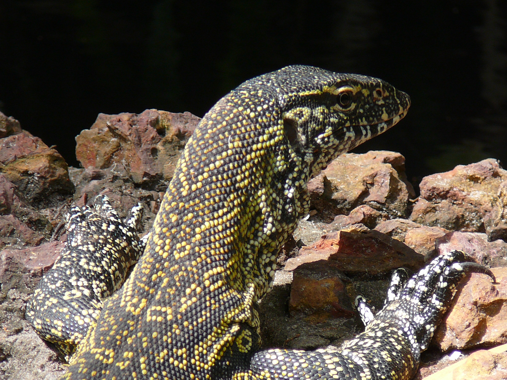 Nile monitor